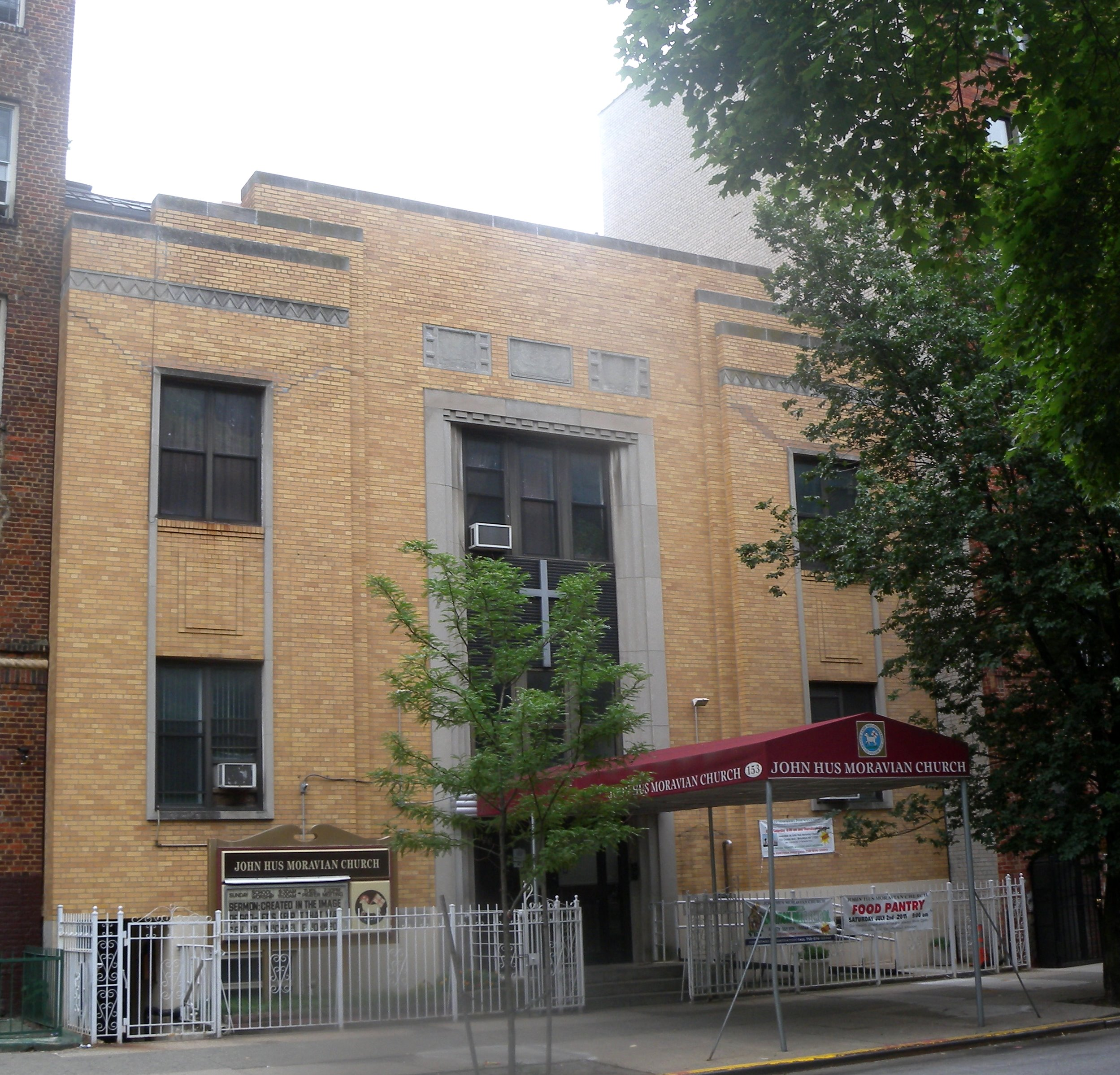 Looking southeast across Ocean Avenue at Moravian Church on a cloudy day.